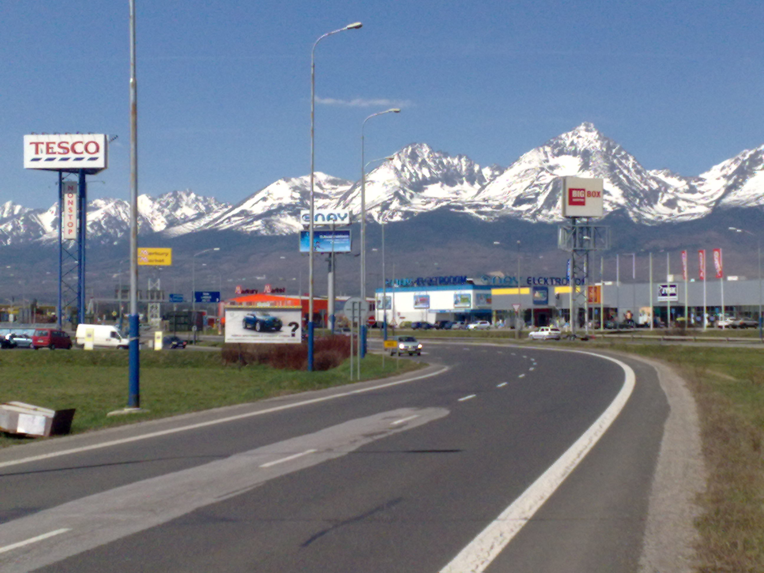 View from Poprad